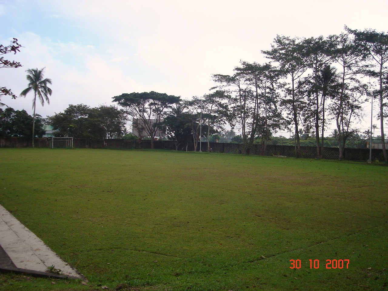 The soccer field of the Rogationist College of Silang, Cavite, Philippines